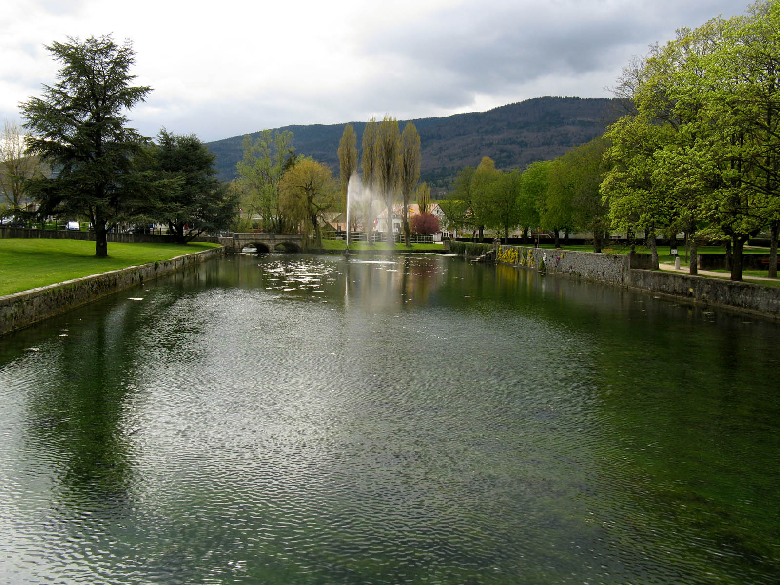 The Pond with the Fountain, L'Isle Manor, L'Isle (Switzerland)